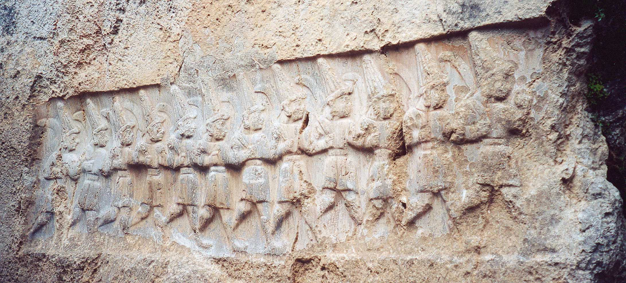 Relief depicting twelve gods of the Hittite underworld. Yazılıkaya, Turkey.